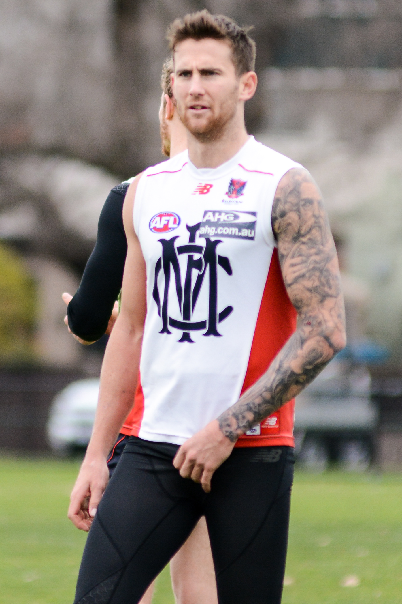 Jeremy Howe at training during July 2015